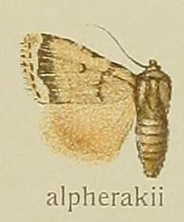 Plate of Amphipyra alpherakii from Warren 1914